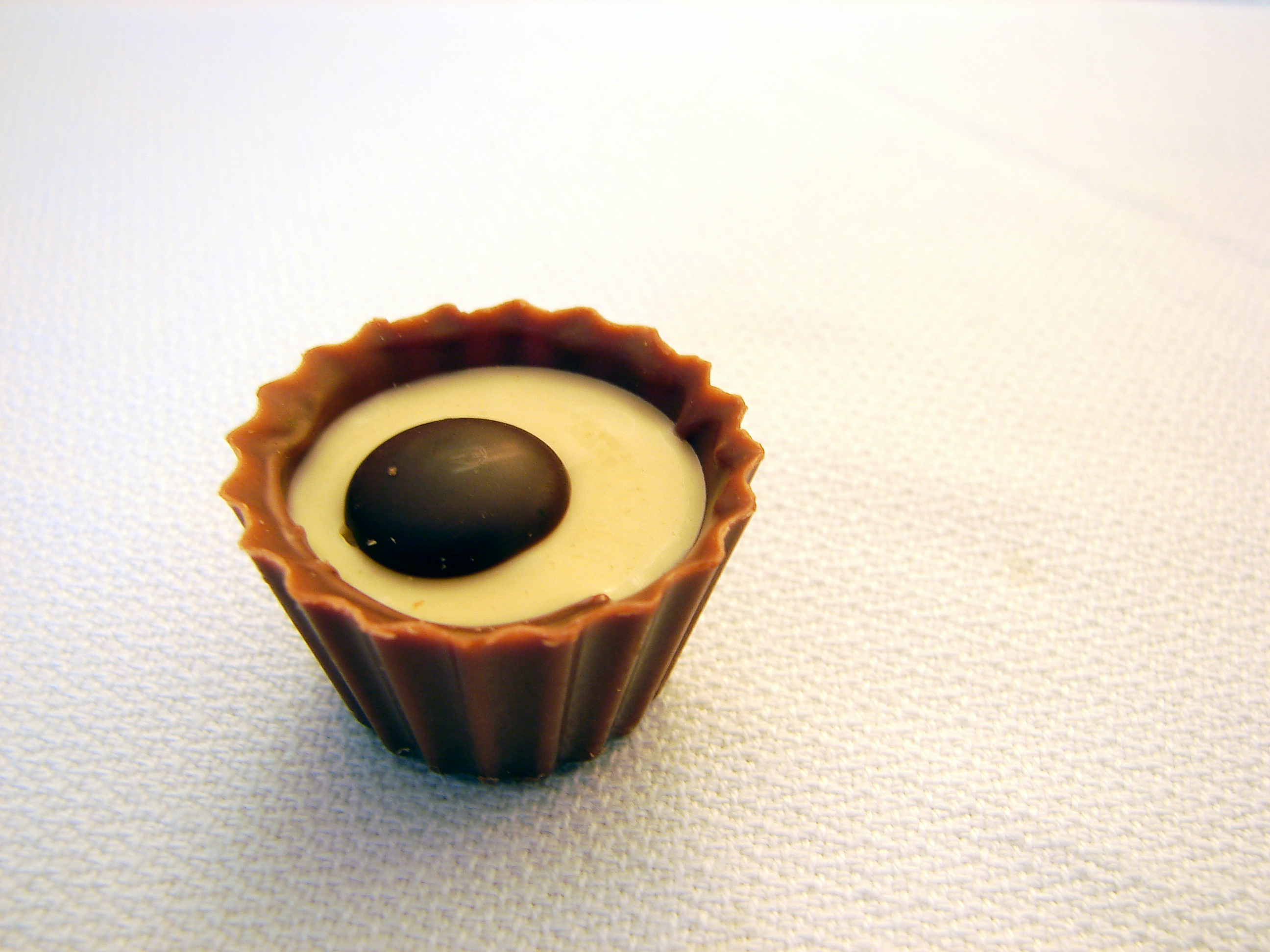 A piece of chocolate candy.